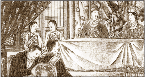 An illustration of King Gojong and Queen Min receiving the Japanese charge d'affaires Inoue Kaoru. It is dated December 24, 1894 and signed by the artist Ishizuka with the legend: "The [Korean] King and Queen, moved by our honest advice, realize the need for resolute reform for the first time." The illustration was published in the 84th edition of the Japanese magazine Fūzokugahō (風俗畫報) on January 25, 1895.